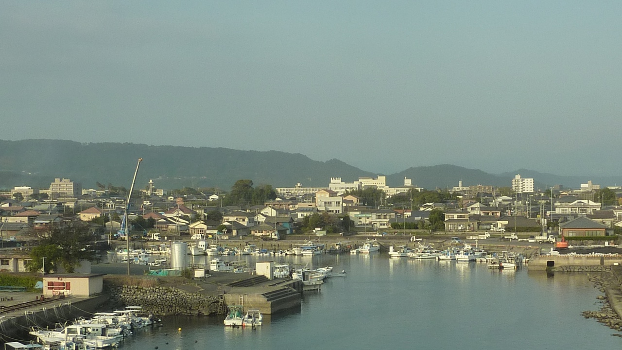 Hamanoichi, is also known as Port of Hayato (Kirishima City, Kagoshima, Japan)